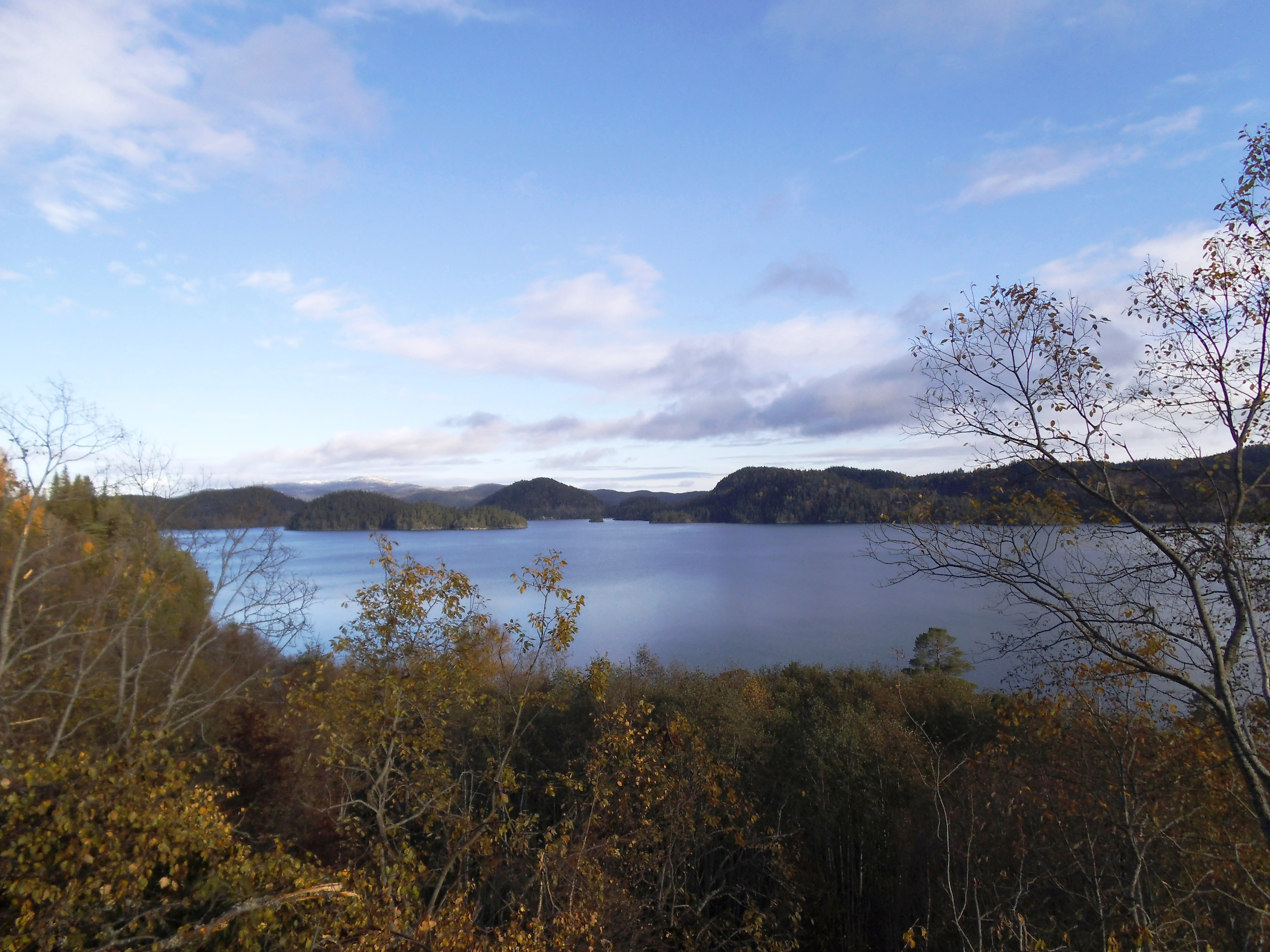 Benna, a lake in Korsvegen, Melhus.